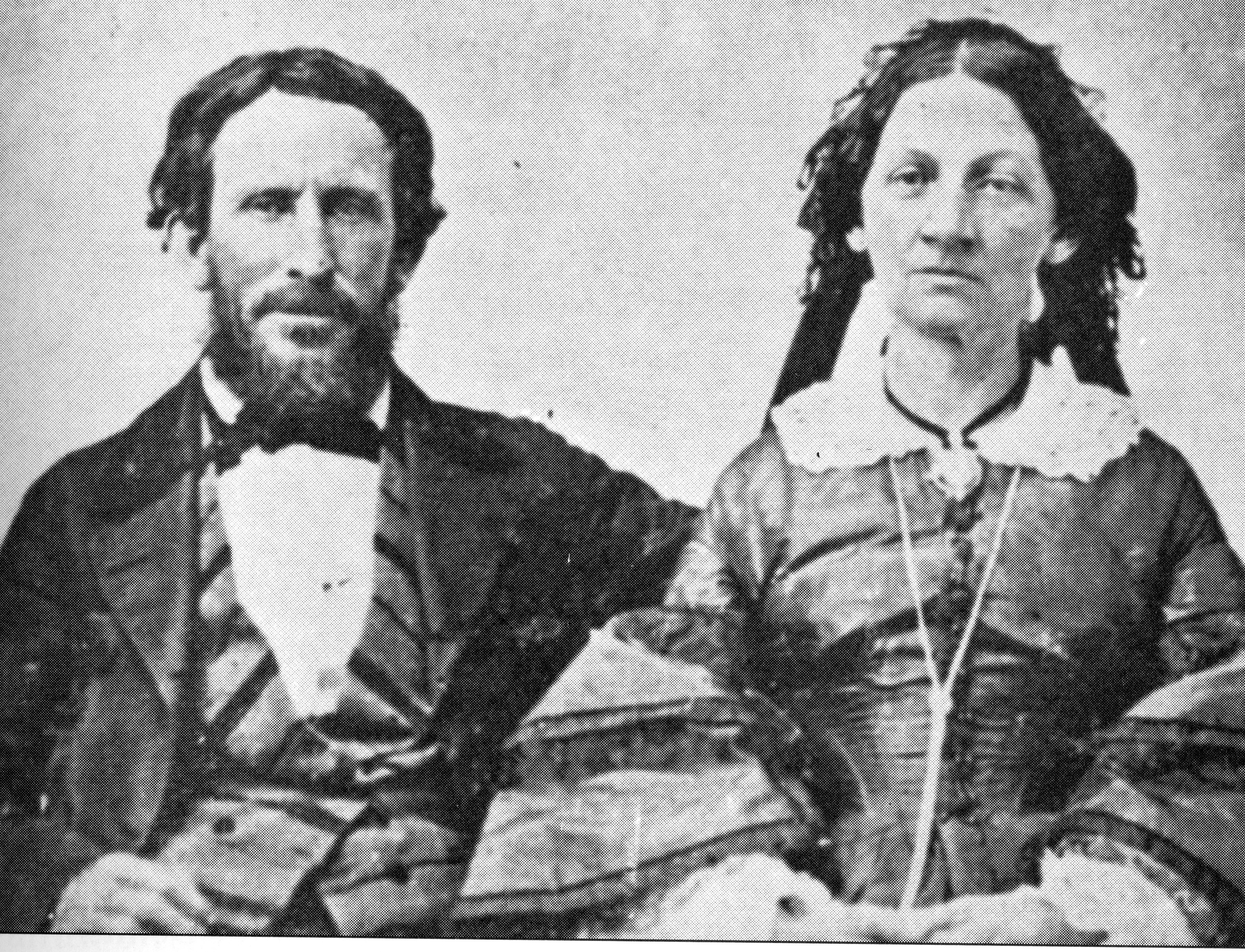 This is a photo of James F. and Margaret (Keyes) Reed, who were members of the Donner Party. Margaret died about 1862, and James died in 1874. The original photo is at the Bancroft Library, University of California, Berkeley. The photographer is unknown.